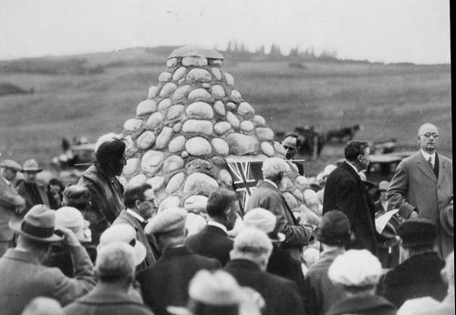 G. C. King at unveiling of memorial cairn, Morley, Alberta. Plaques honoured pioneers, McDougall family and Stoney people. Tom Wilson, second from left, rear. Doctor W. A. Lewis, left, in profile, wearing glasses. Andrew Sibbald, in front of flag, back to camera. G. C. King and Right Honourable W. H. Cushing, speaking.